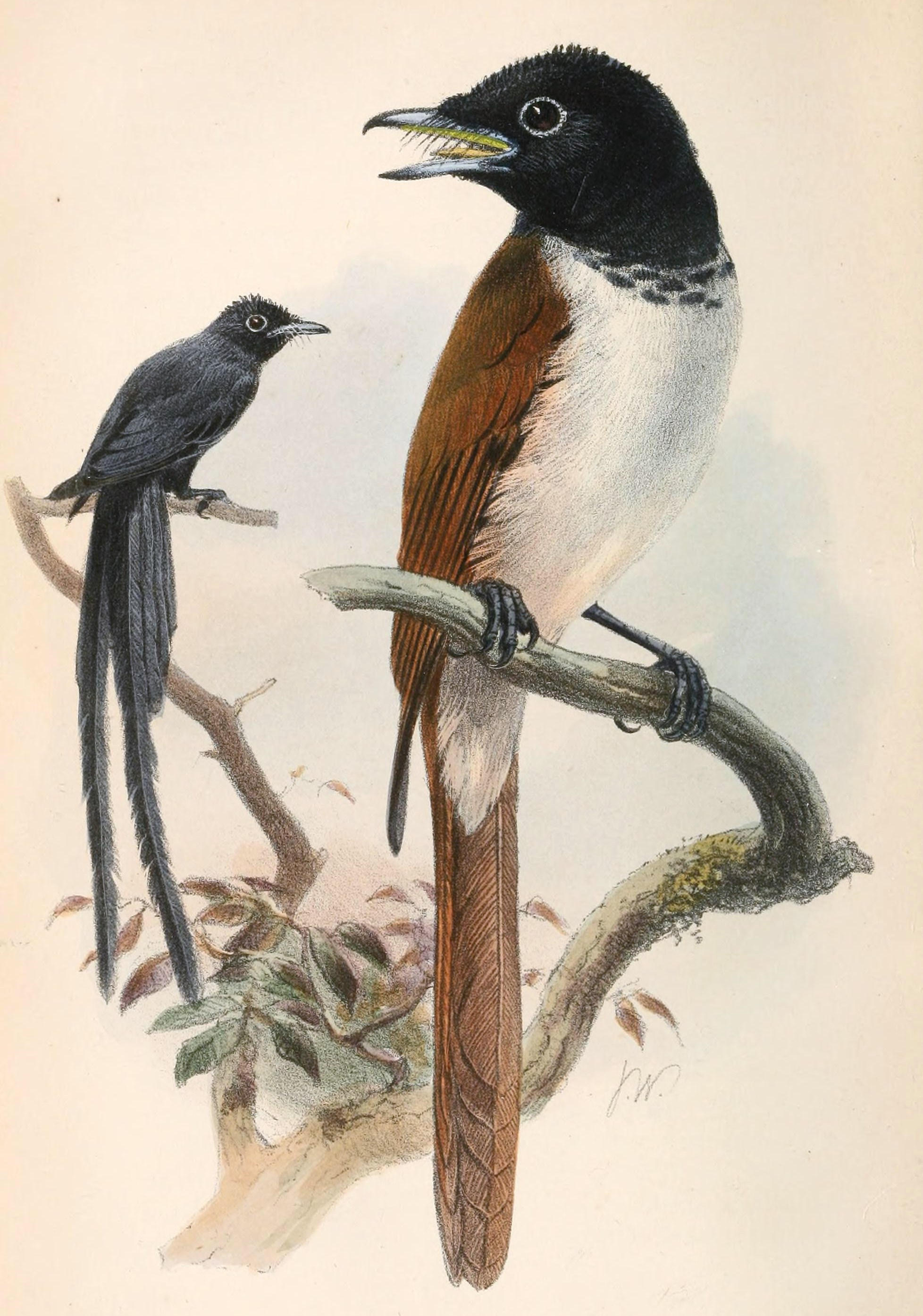 « Tchitrea corvina » = Terpsiphone corvina (Seychelles Paradise Flycatcher)